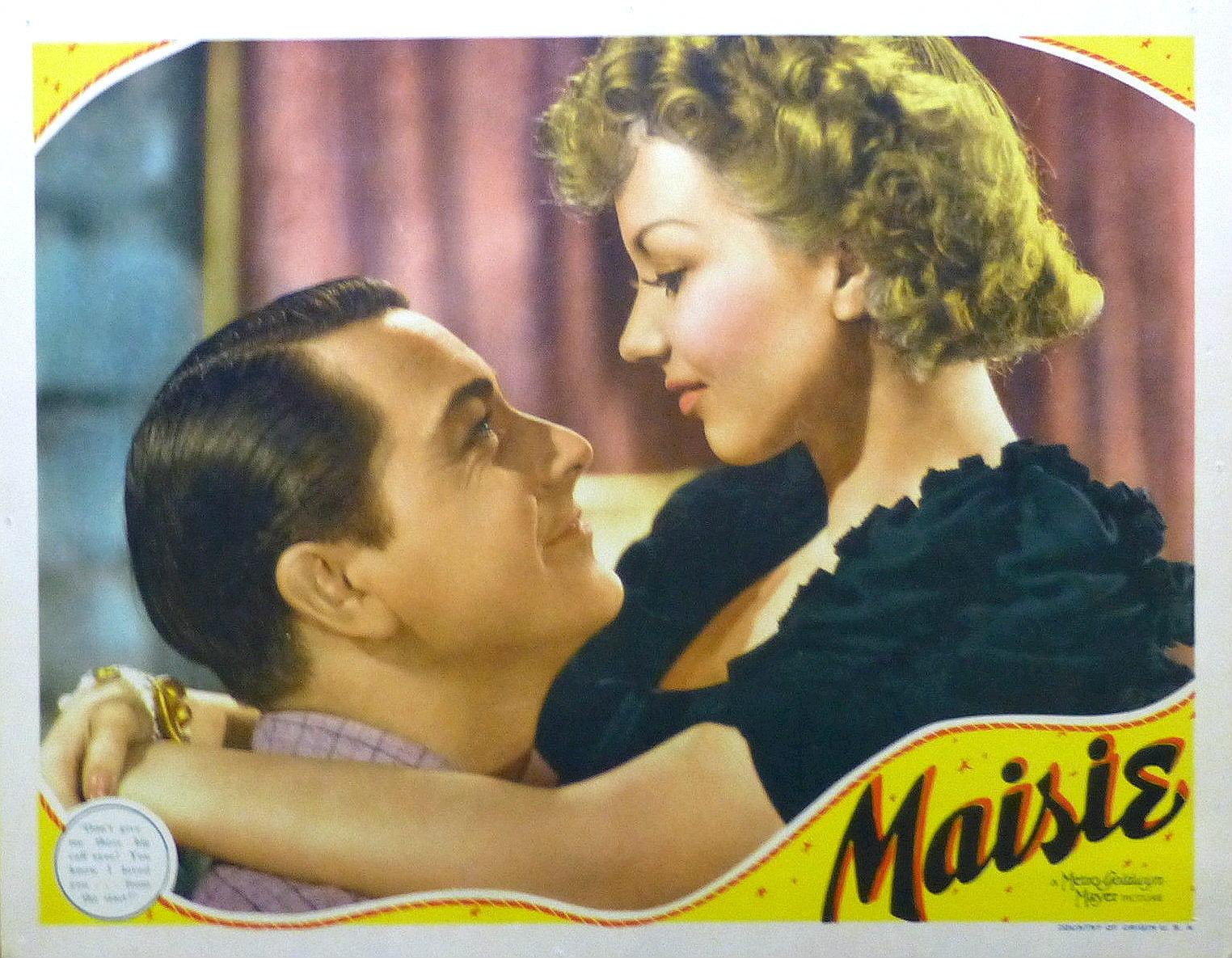 Lobby card for the American comedy film Maisie (1939). The item has no copyright markings on it as can be seen in the links above. At bottom right is Country of origin USA.